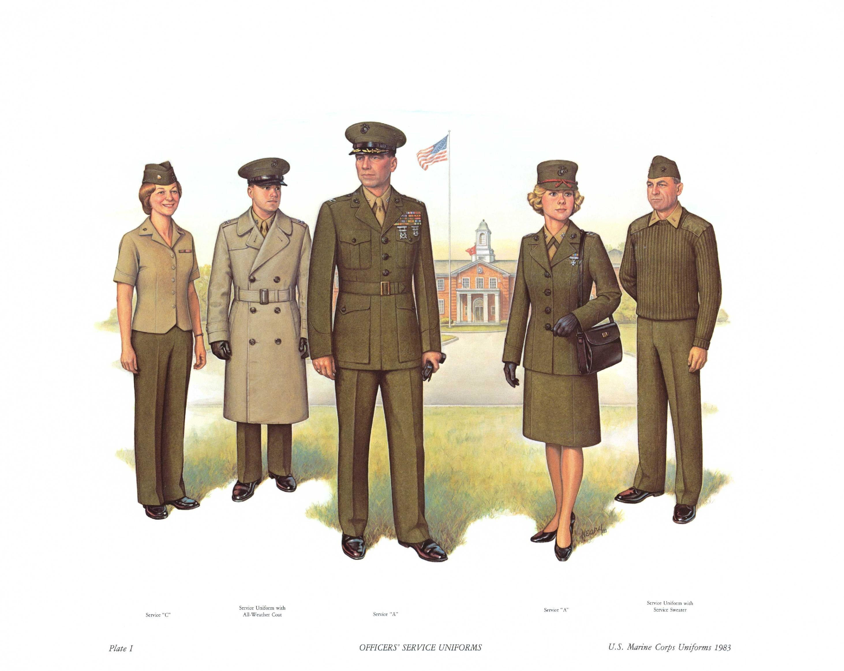 Taken from Marine Corps Uniforms 1983 (Color Prints PCN 19000316200).